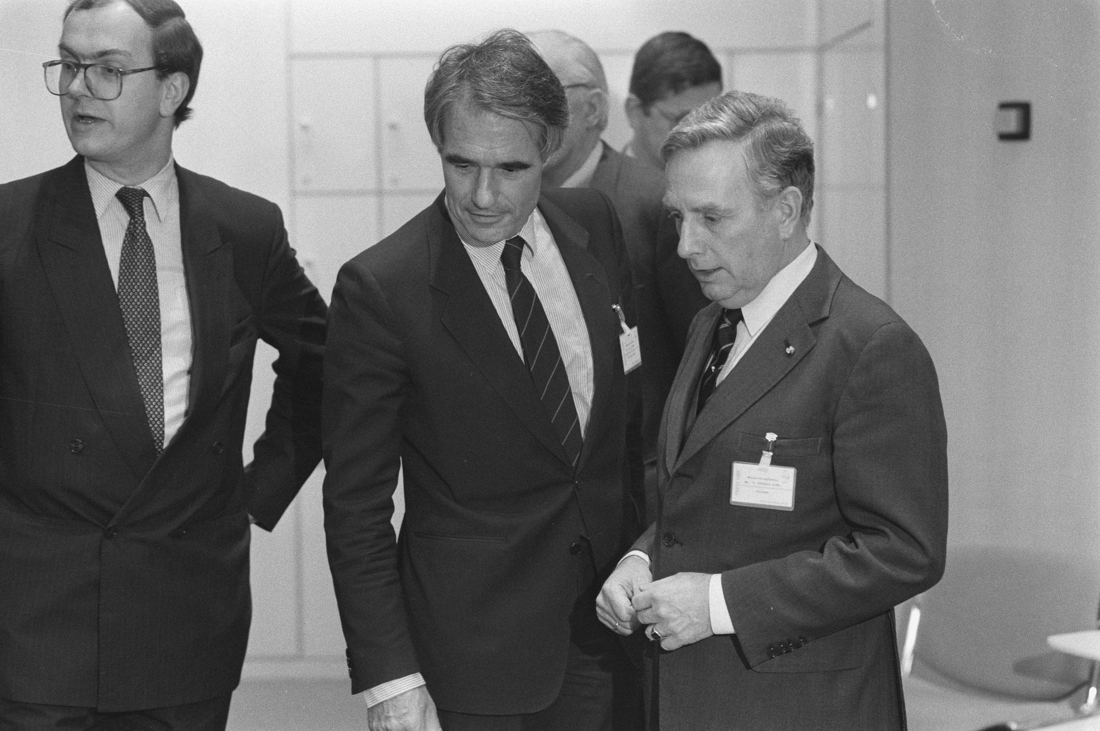 Left to right: Joris Demmink (Head of the Directorate of Police, Ministry of Justice NL), Rudolf de Korte (Interior Minister NL), Frits Korthals Altes (Justice Minister NL). Photo taken during a meeting of European Justice Ministers about terrorism, 24 April 1986